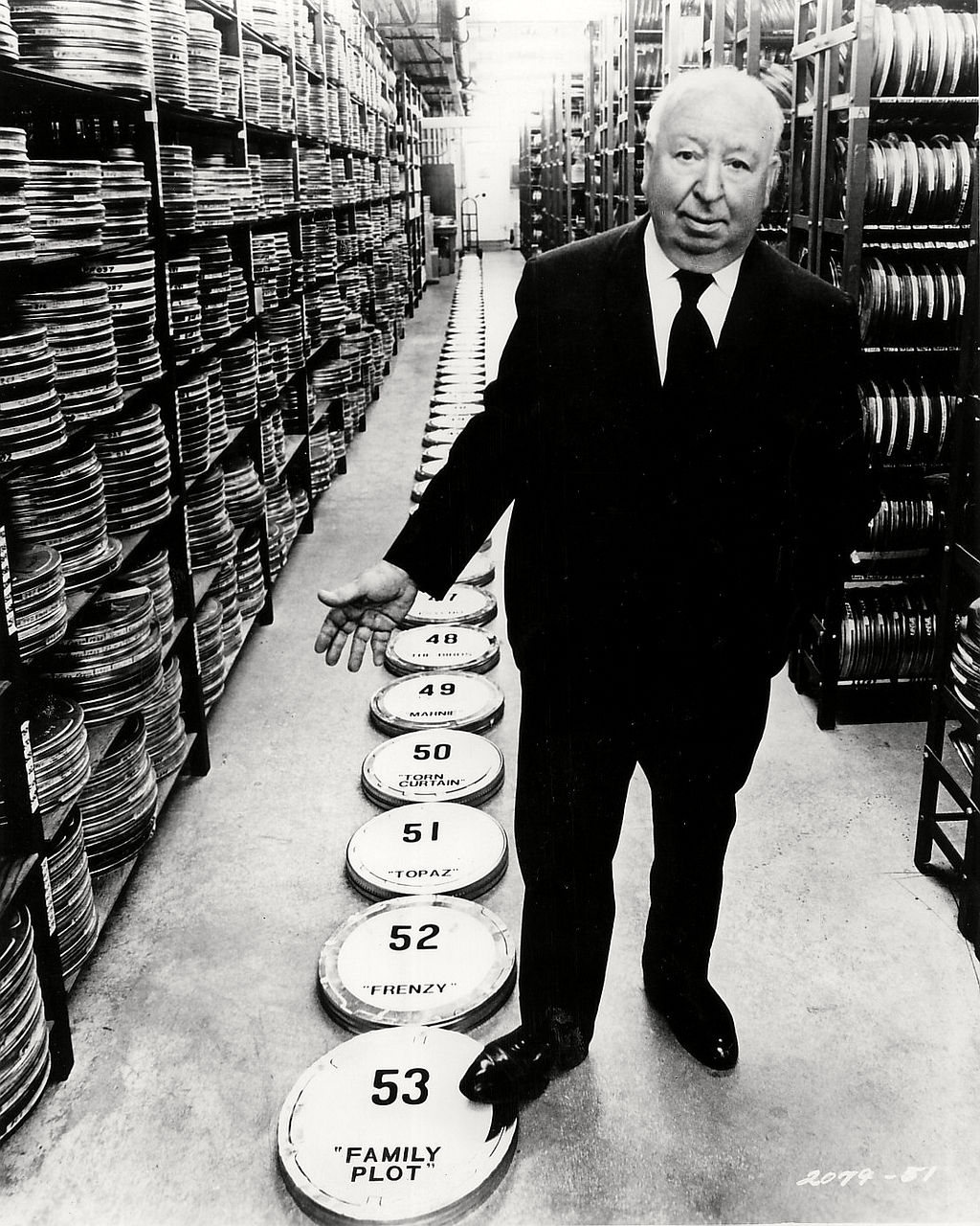 Alfred Hitchcock Publicity Photo 1976